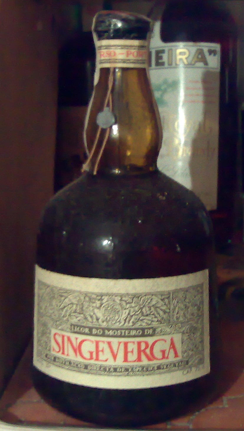 Licor de Singeverga, a portuguese alcoholic drink made by monks.